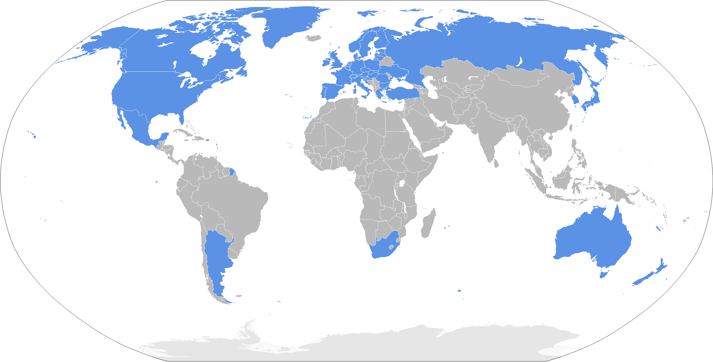 Participating States of the Wassenaar Arrangement.